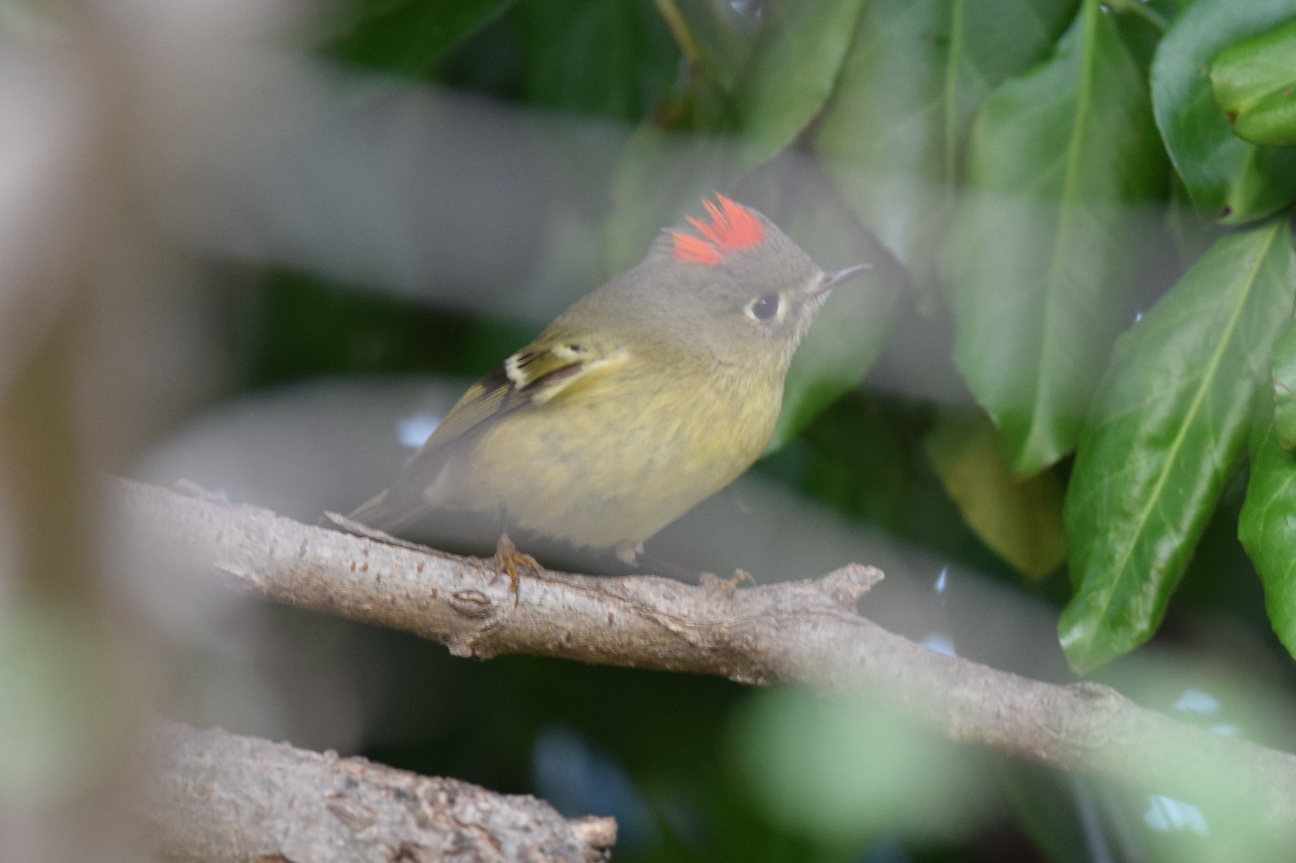 Tower Grove Park 10/21/16